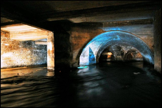 The subterranean Cathedral arches of Bradford. Hidden beneath Centenary Square in Bradford is this magnificent subterranean vaulted arch room as grand as any Cathedral. There were plans to open up this section of beck with the Alsop plan to regenerate the city centre. 'The Bowl' is an ambitious project to open up the beck and create a huge pool to act as the pivotal point of the new city centre. Bowling Beck joins the flow on the right past the arches at this point. The Bradford beck runs underground, just higher up from the old Odeon cinema, It twists and turns under Centenary Square before emerging near to Valley Parade football ground. Unusually for a major city, Bradford is not built on any substantial body of water. The ford from which it takes its name 'Broad-Ford' was a crossing of the stream called Bradford Beck. The beck rises in the Pennine hills to the west of the city, and is swelled by tributaries such as Horton Beck, Westbrook, Bowling Beck and Eastbrook. At the site of the original ford, just below the present Bradford Cathedral, it turns north, and flows more or less straight towards the River Aire at Shipley. The beck's course through the city centre is entirely underground and was mostly so by the middle of the 19th century. For many more pictures